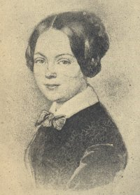 Marie von Ebner Eschenbach (geb. Dubsky) (1830-1916)